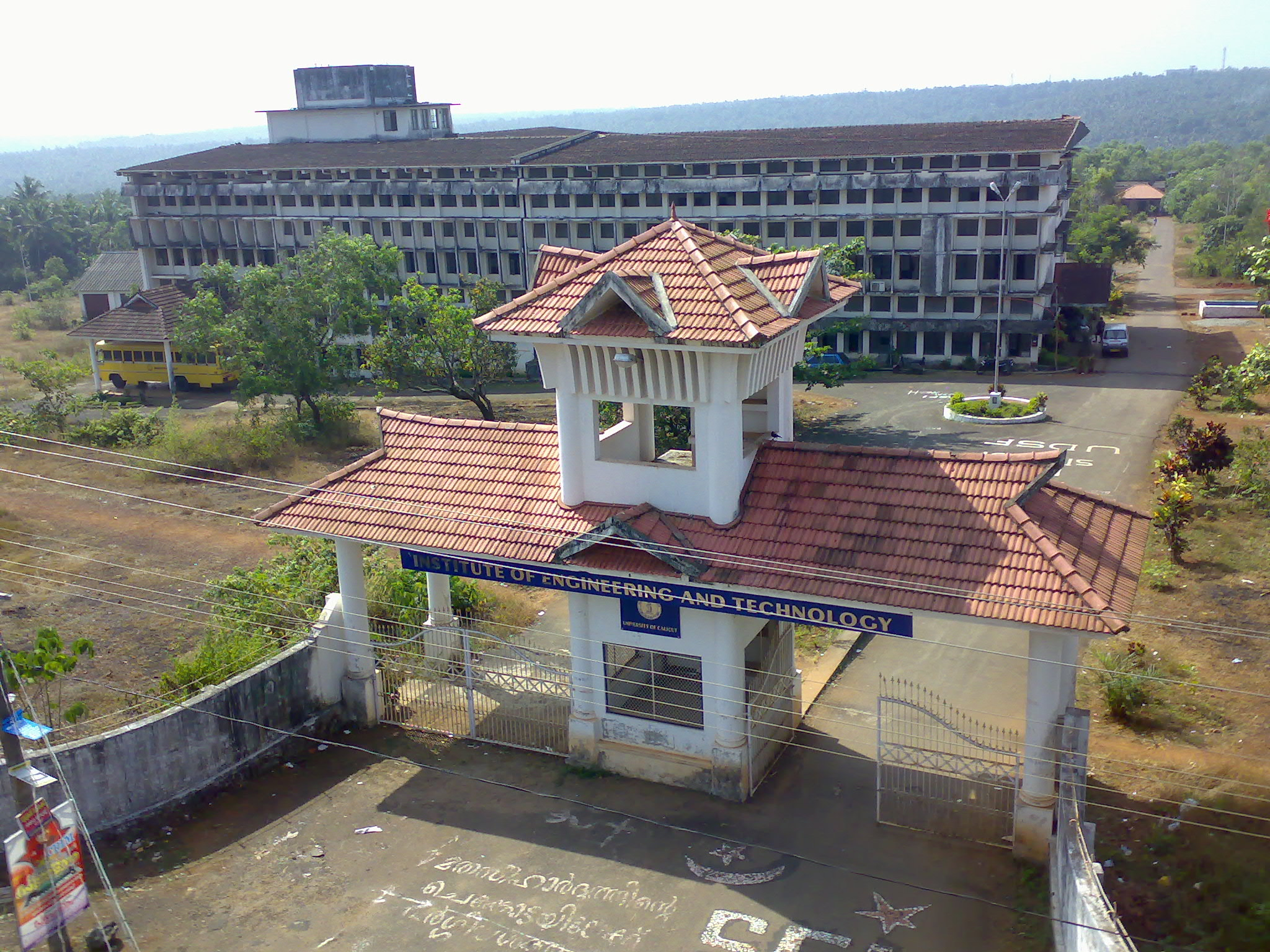 Bird's eye view of CUIET ( Calicut University Institute of Engineering and Technology )